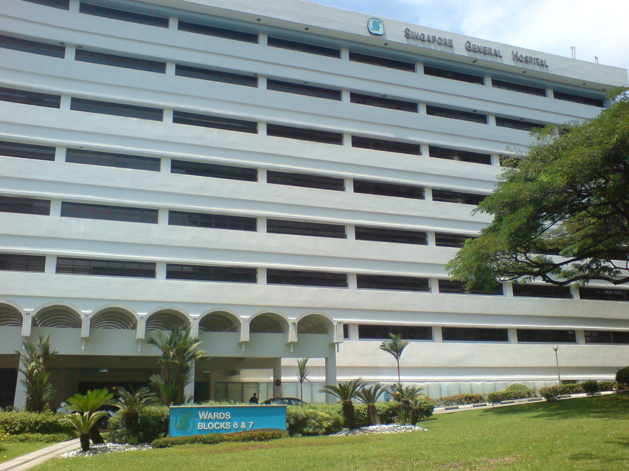 Photo of Singapore General Hospital